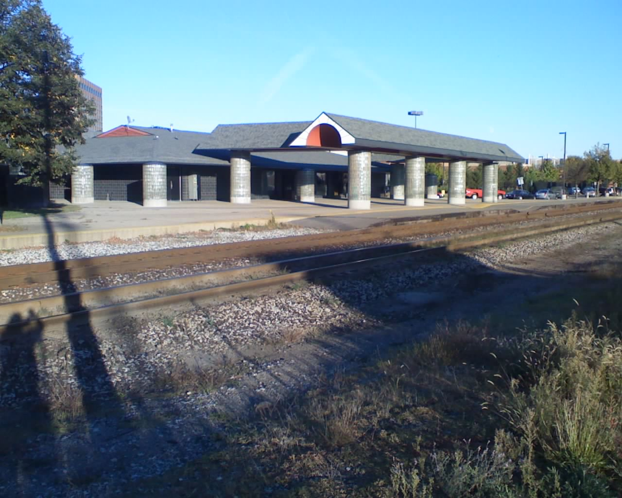 The Battle Creek Amtrak station Author: Randall J. Berry Dp67